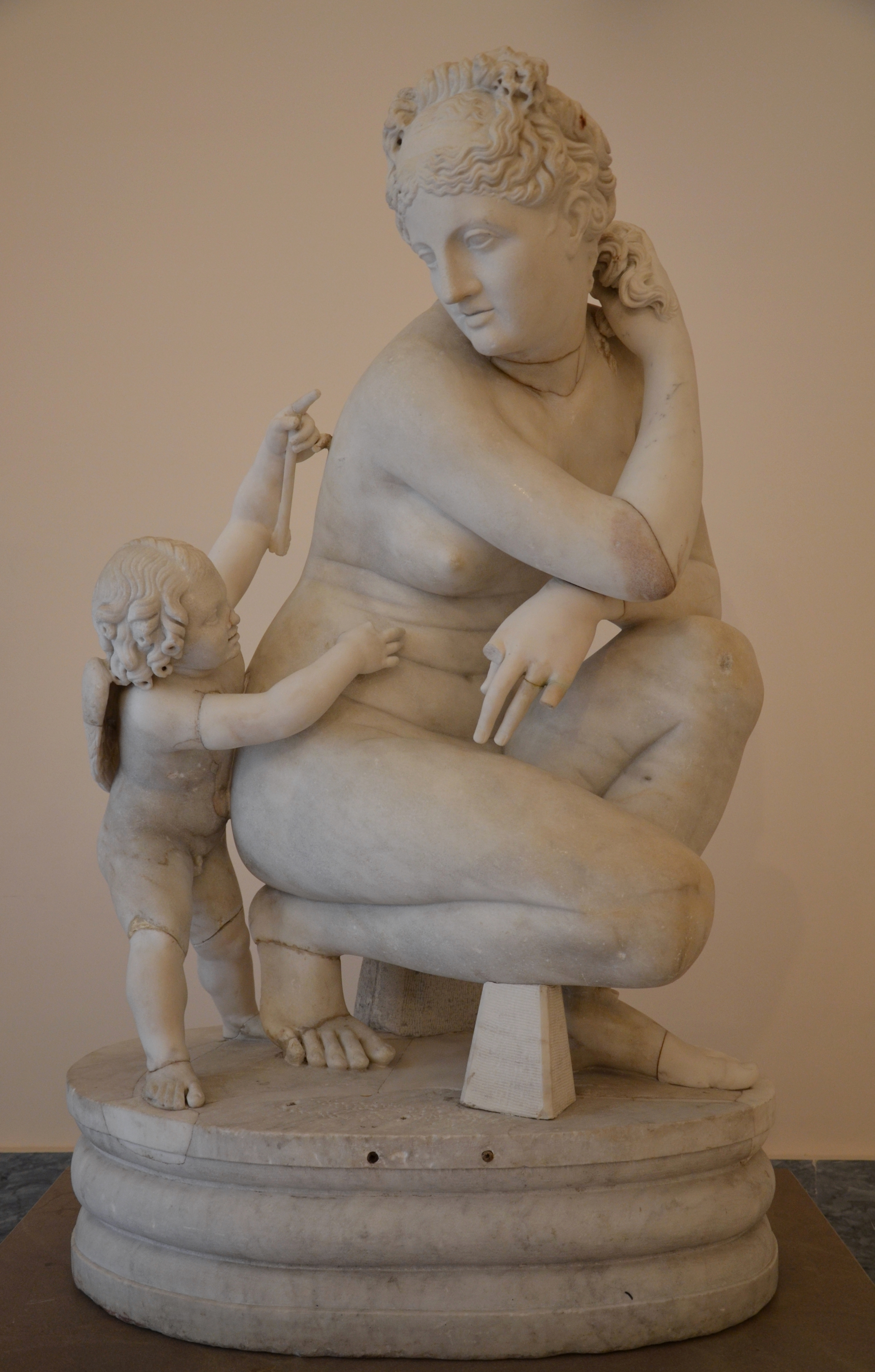 Crouching Aphrodite with Cupid, Roman variant of the Imperial Era after a Hellenistic type, 2nd century AD, Naples Archaeological Museum